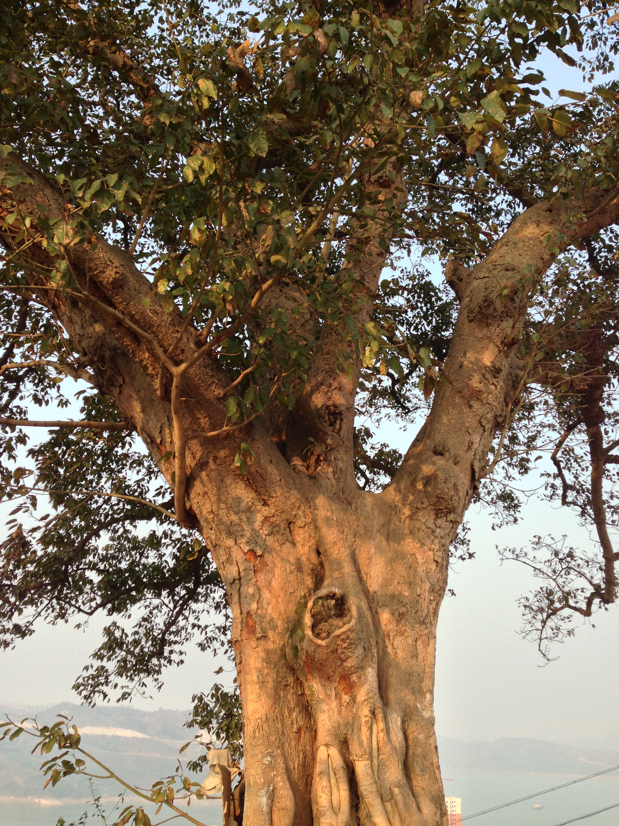 Ficus virens, White Fig, pilkhan, an-borndi